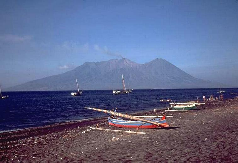 Sangeang Api is a small volcanic island off the NE coast of Sumbawa Island. Two large volcanic cones, Doro Api in the center and Doro Mantoi on the right, were constructed within and on the south rim of a largely obscured caldera. Intermittent eruptions have been recorded since 1512, but the volcano has been frequently active in the 20th century.